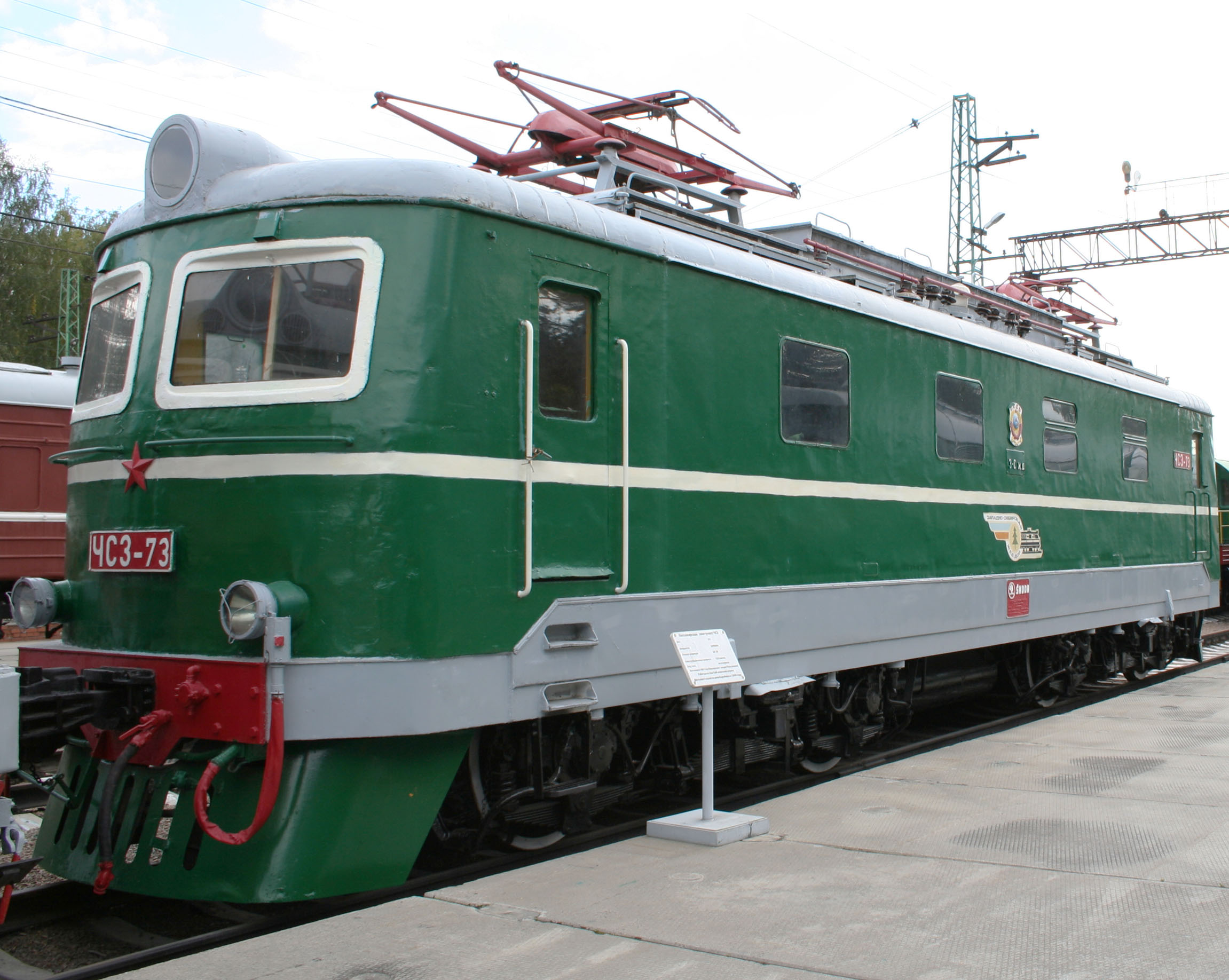 Electric locomotive ЧС3-73 in Novosibirsk Railway Museum